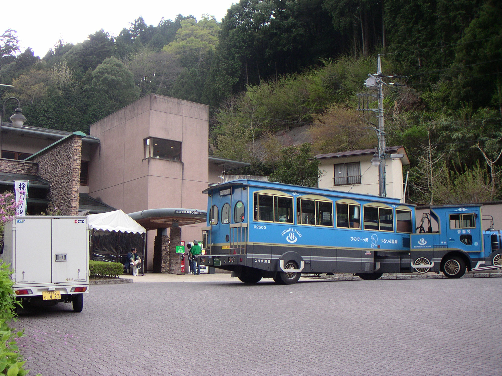 Hinode Mitsusawa Tsurutsuru Onsen